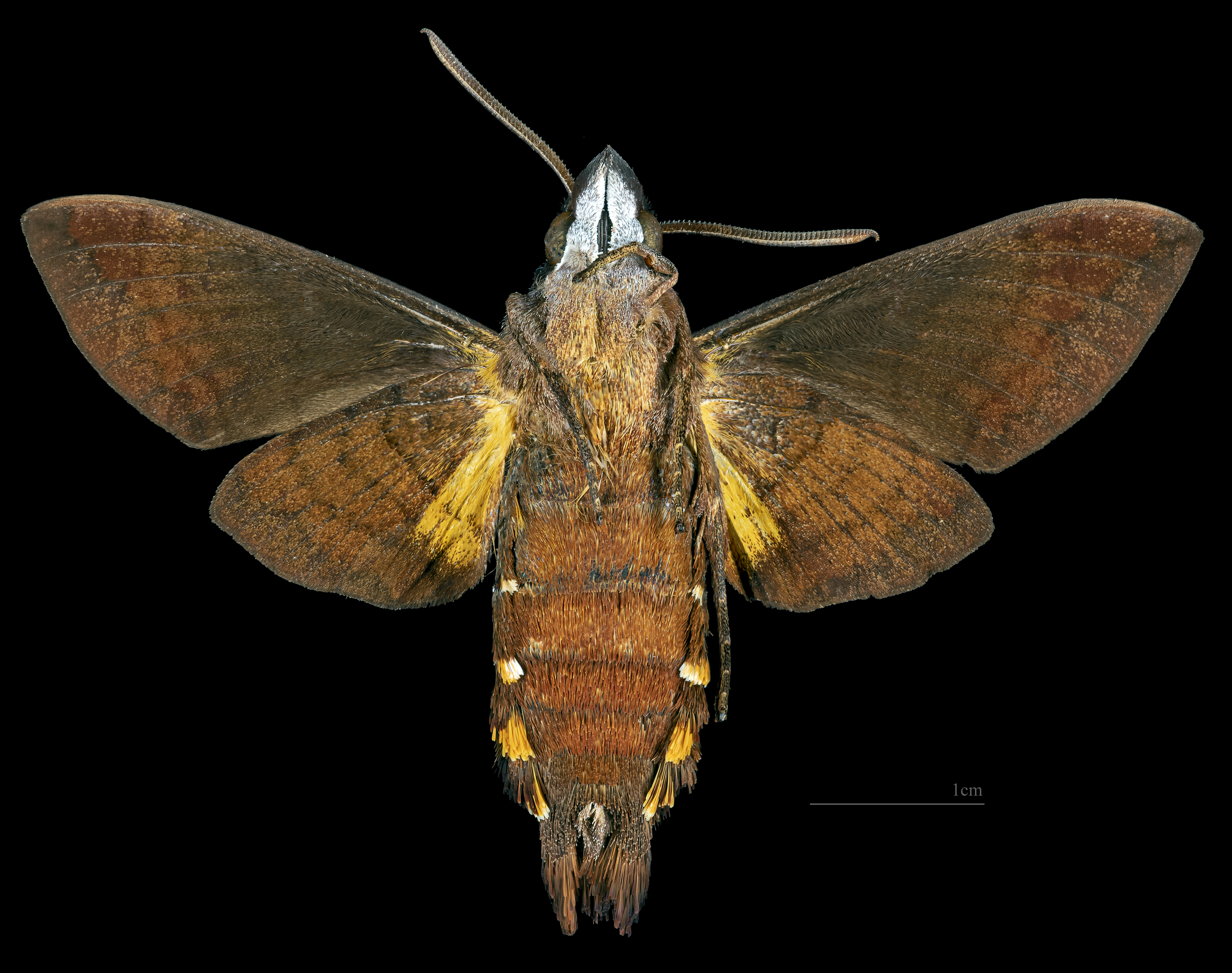 Macroglossum augarra - △ Ventral side Collection of the Mathematician Laurent Schwartz